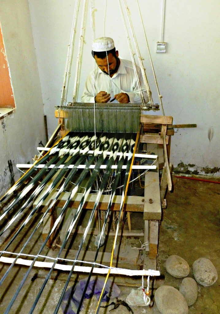 i took this photo on a trip along the 'Southern Silk Route' in Khotan in 2011